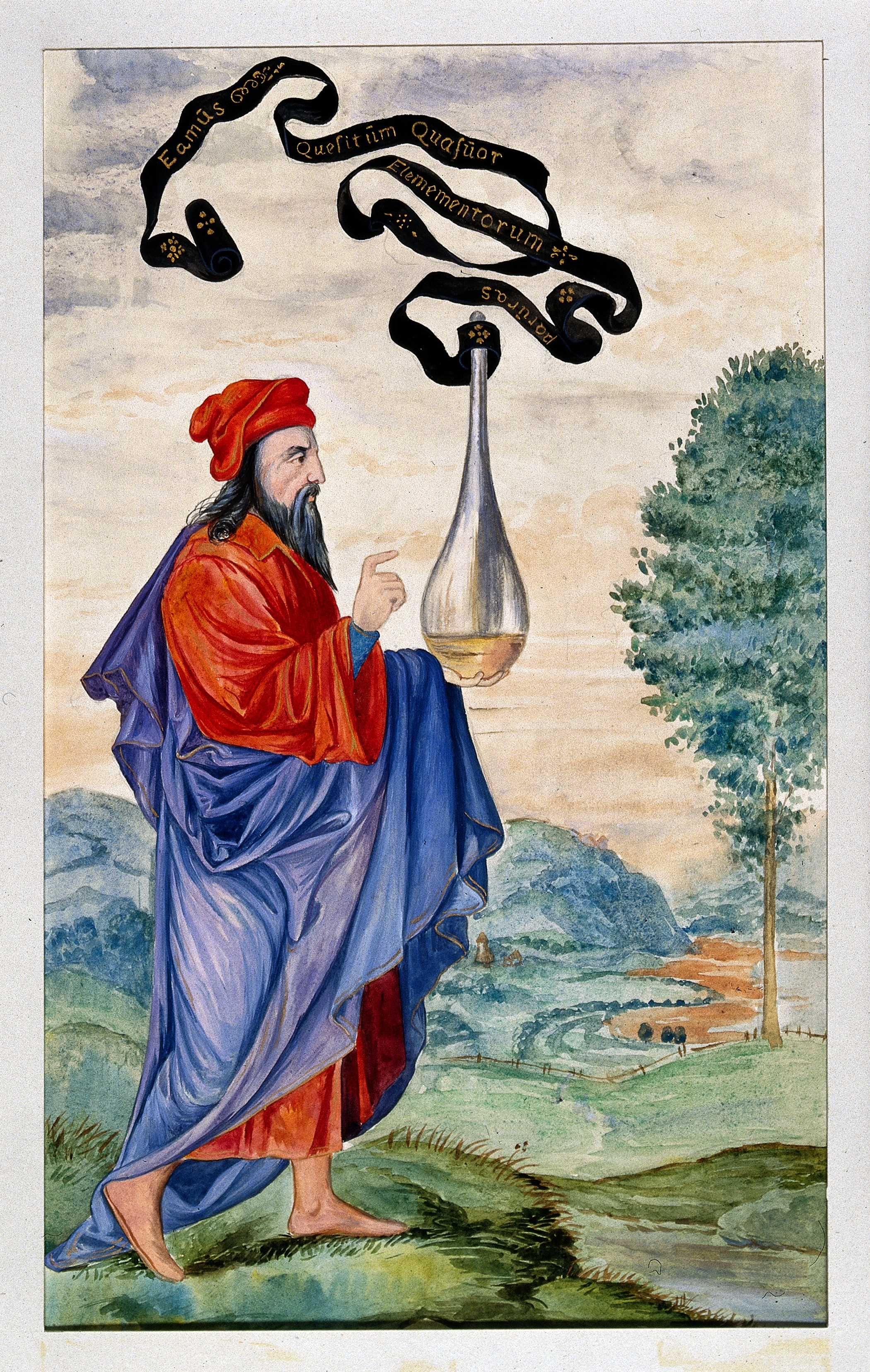 An alchemical adept carrying the vase of Hermes, which is inscribed "Let us go to seek the nature of the four elements"; from Salomon Trismosin's 16th century 'Splendor solis'. Watercolour painting. Iconographic Collections Keywords: Alchemy; Salomon Trismosin